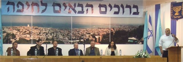 טקס סיום פרוייקט שיקום אסירים ונגמלי סמים במדיאטק הייטק